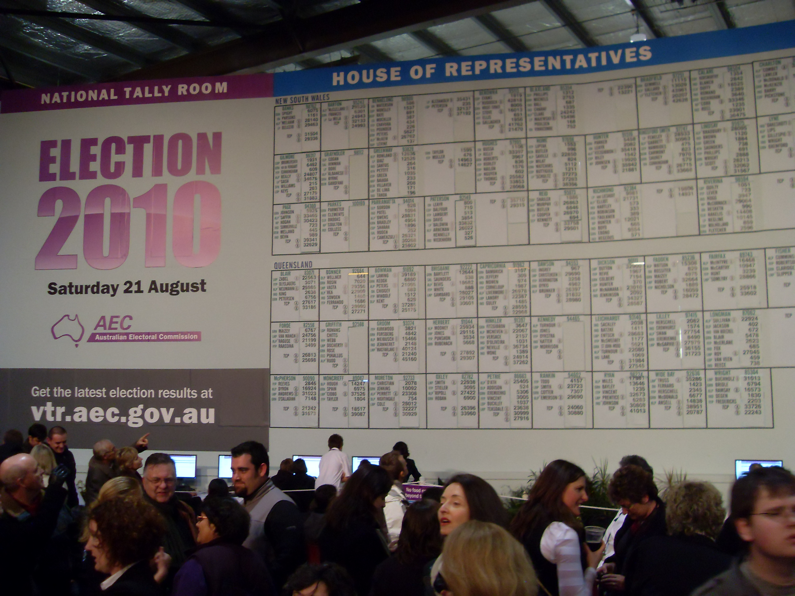 National Tally Room - section of main board.